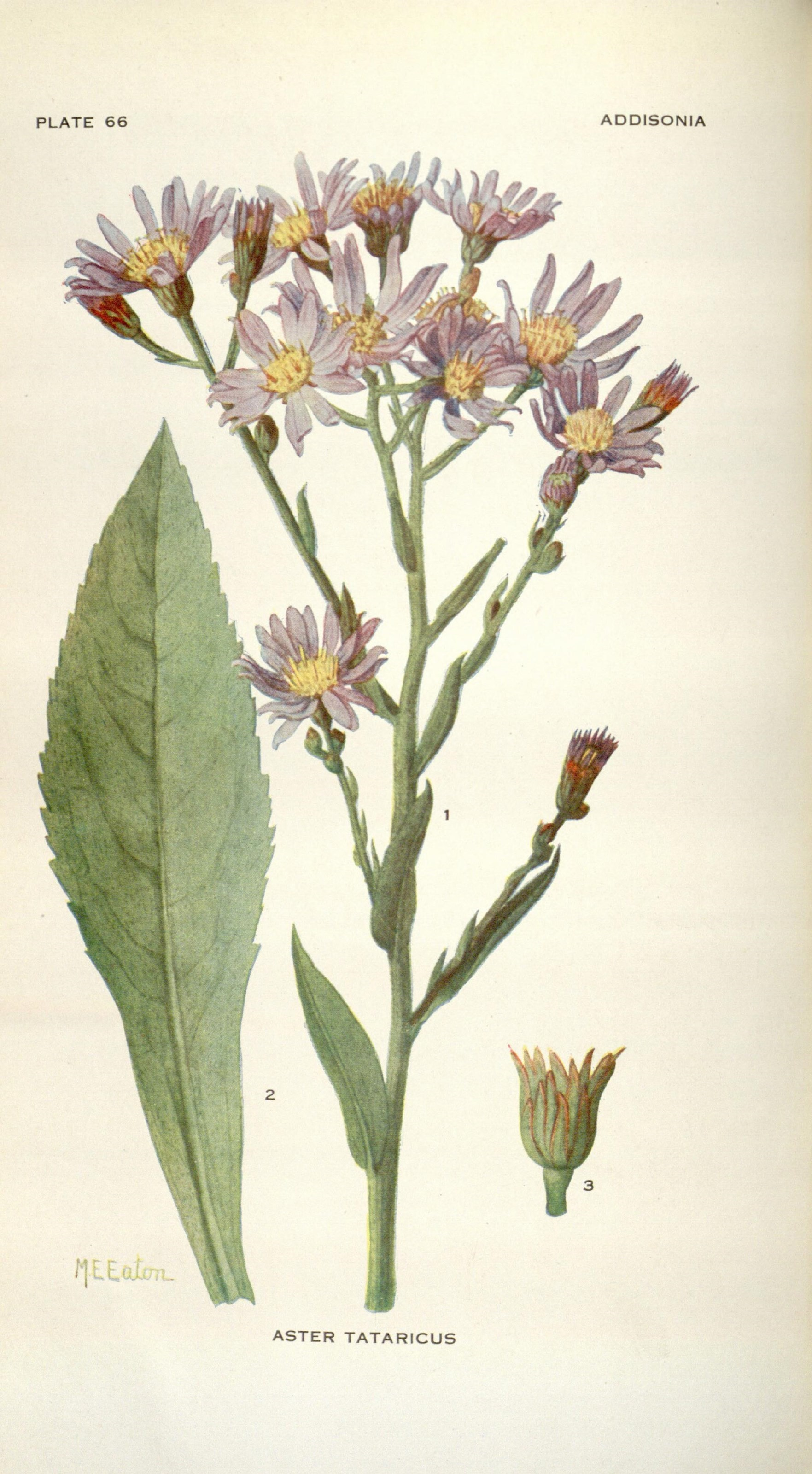 ASTER TATARICUS